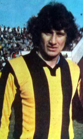 Uruguayan football striker Fernando Morena before a Copa Libertadores match, Independiente v. Peñarol in Avellaneda